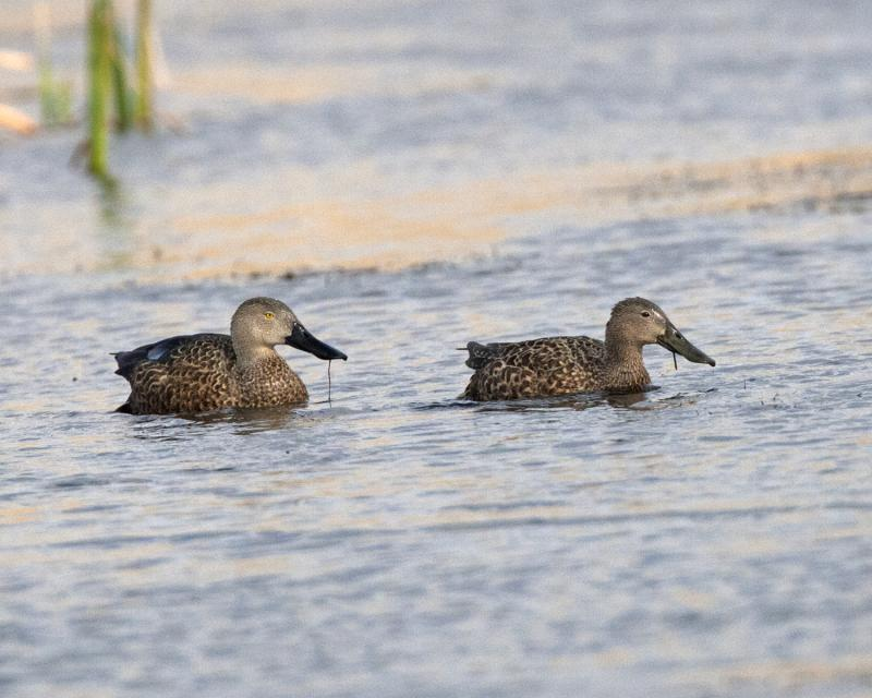 16th. August 2011 Marievale, Gauteng, South Africa 690V9368-2